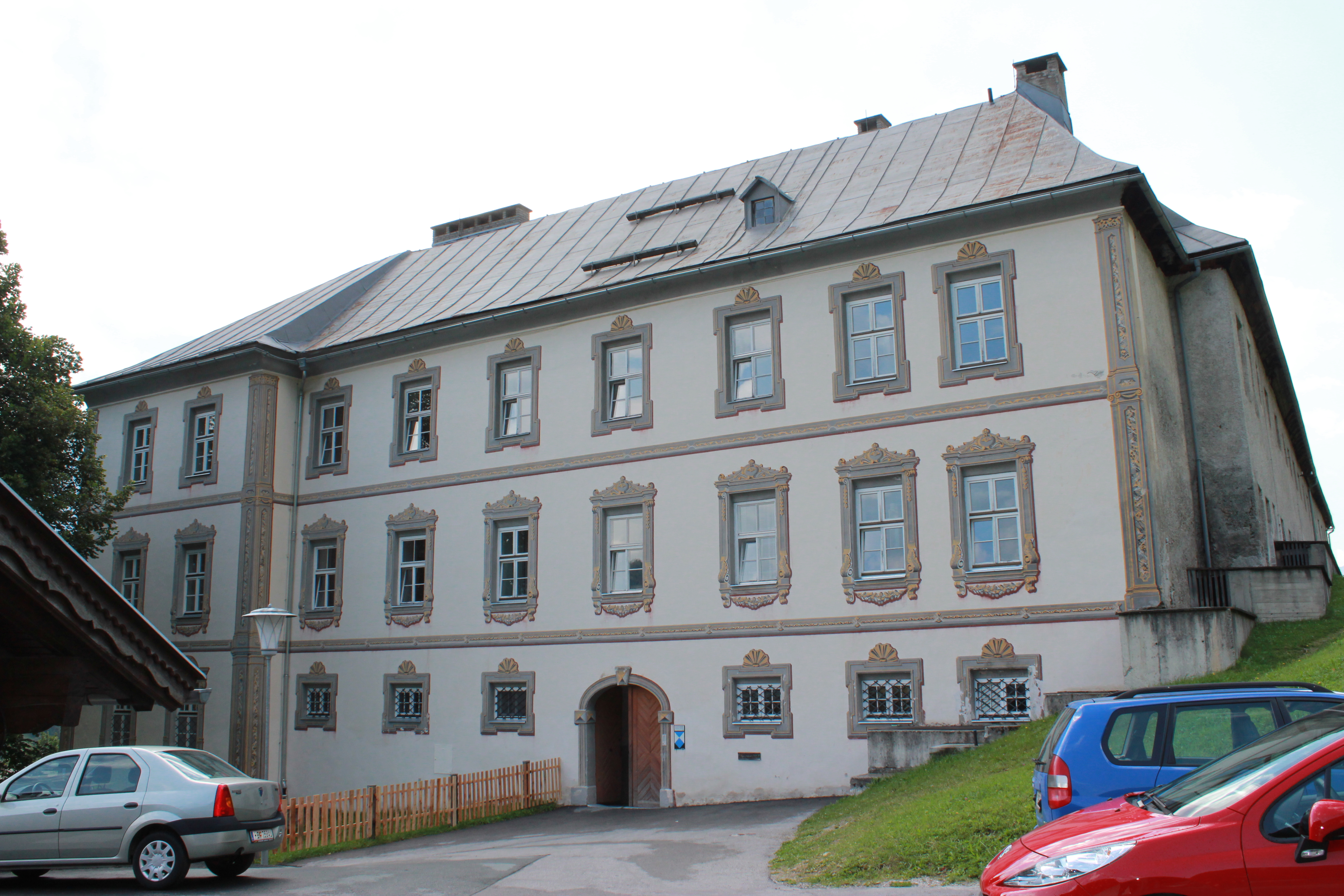 Cloister of Maria Luggau in the community Lesachtal